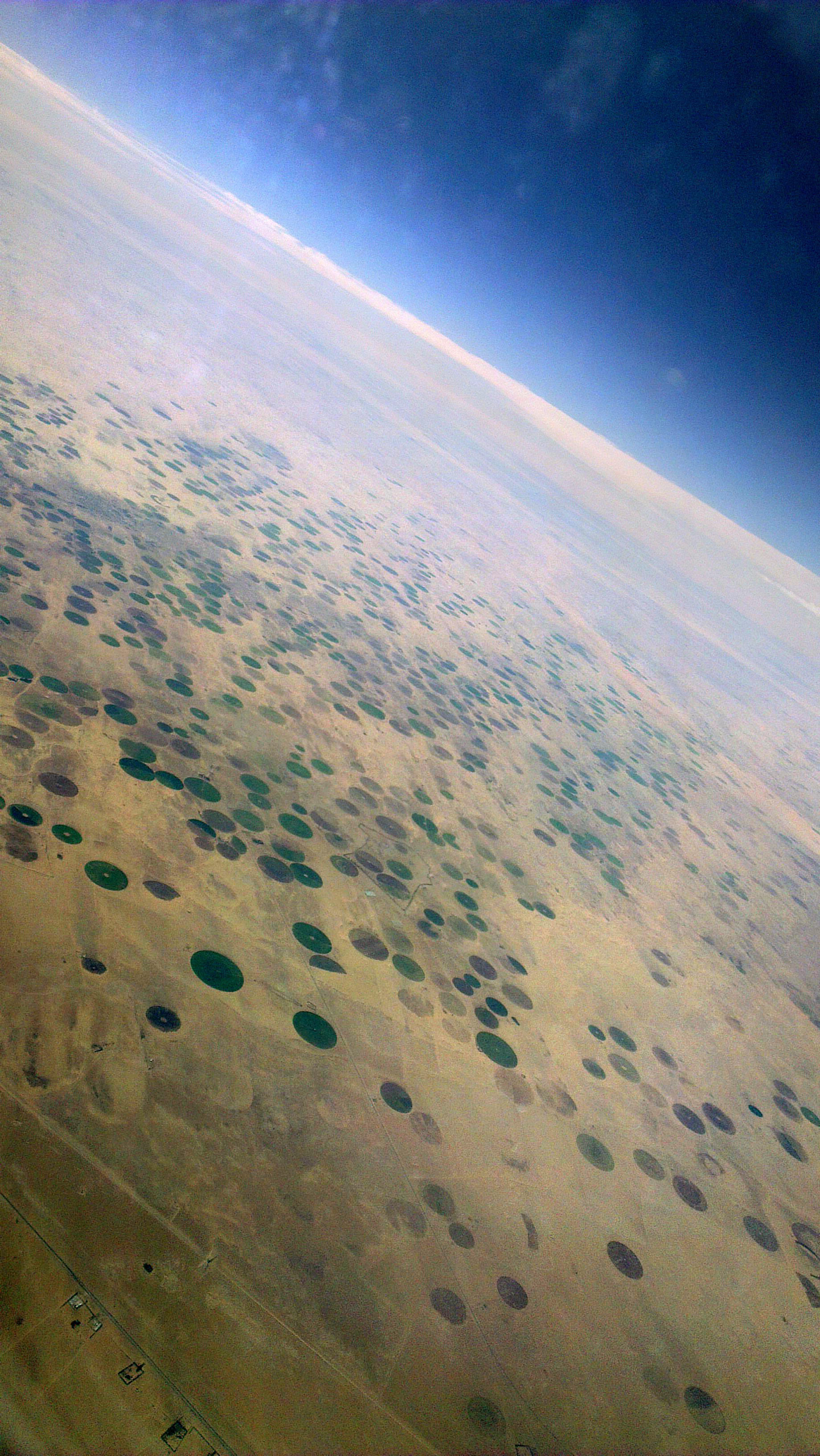 Crop fields above central Saudi Arabia demonstrating center pivot irrigation, taken from an Emirates Boeing 777-300ER at cruising altitude.